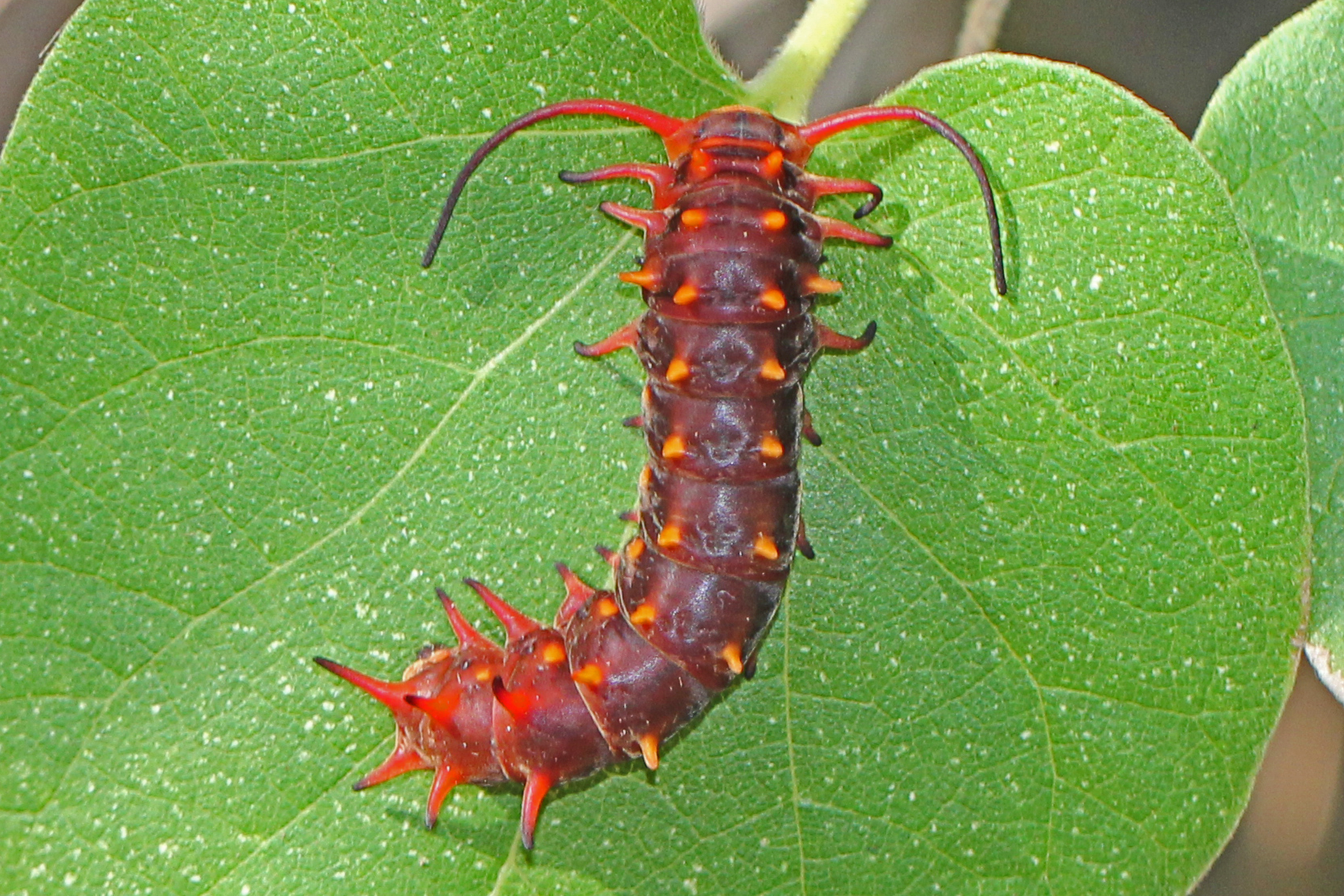 Pipevine Swallowtail caterpillar - Battus philenor, Herndon, Virginia